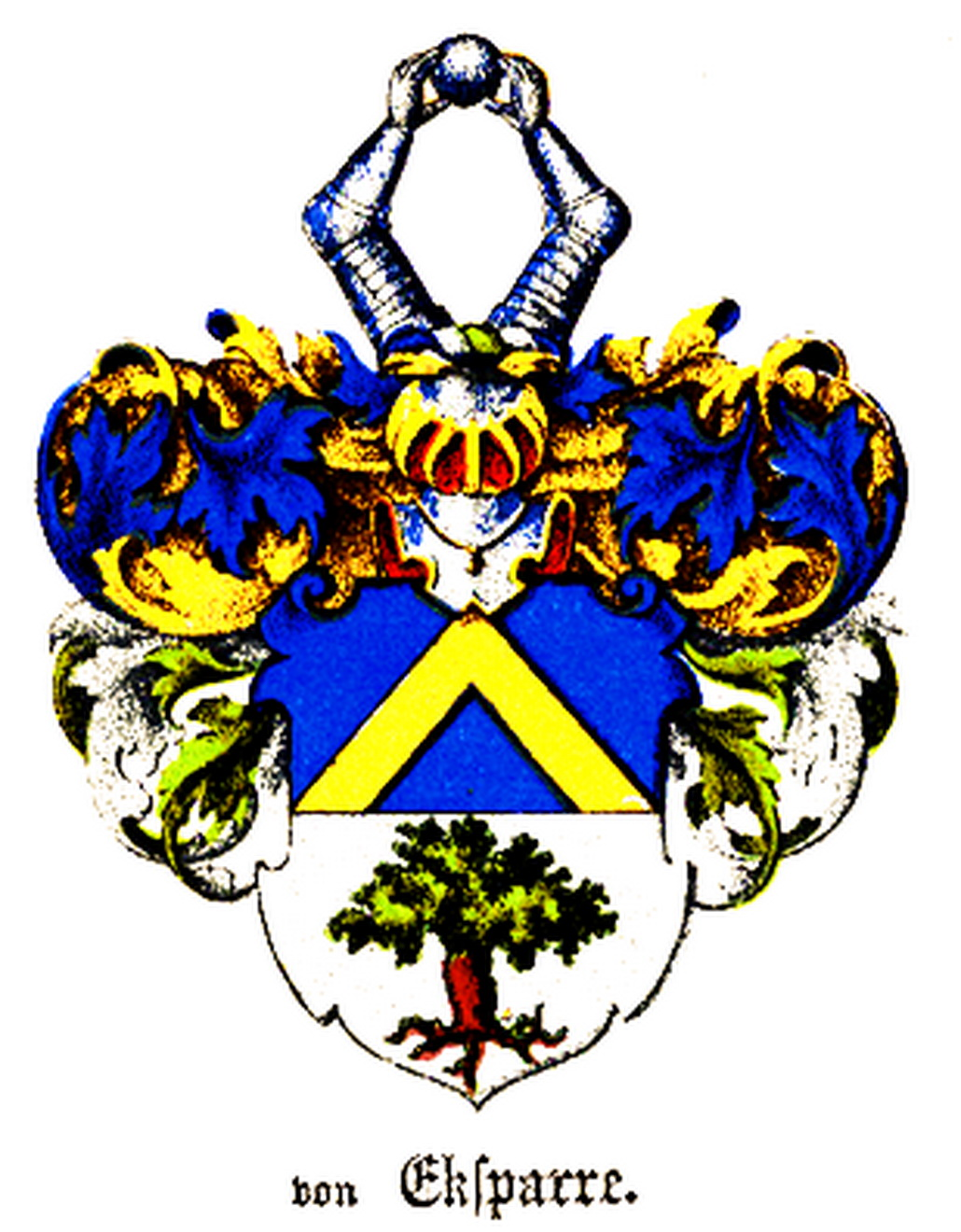 Coat of arms of von Ekesparre family